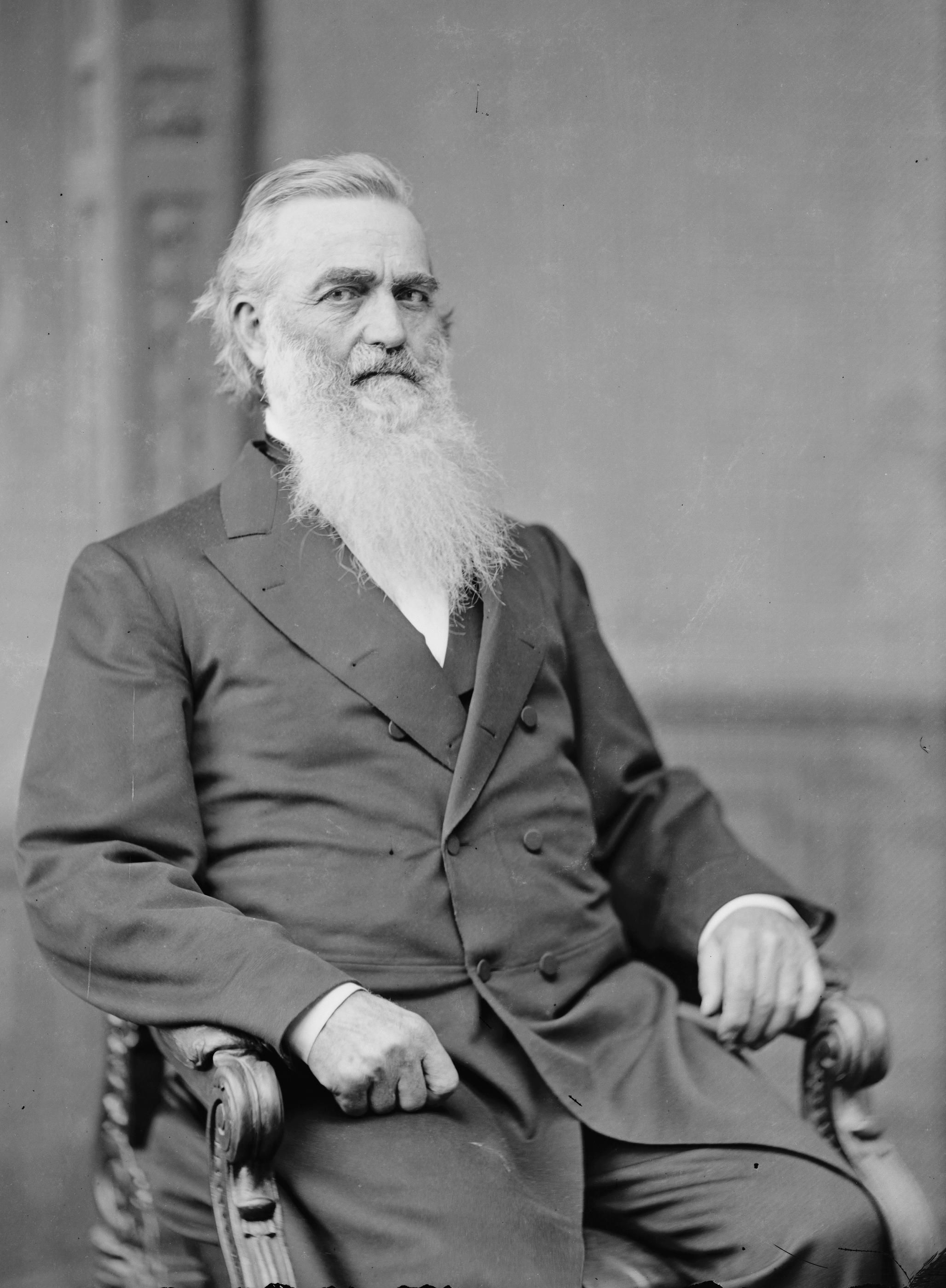 Richard M. Bishop. Library of Congress description: "Bishop, Hon. R.M. Gov of Ohio"